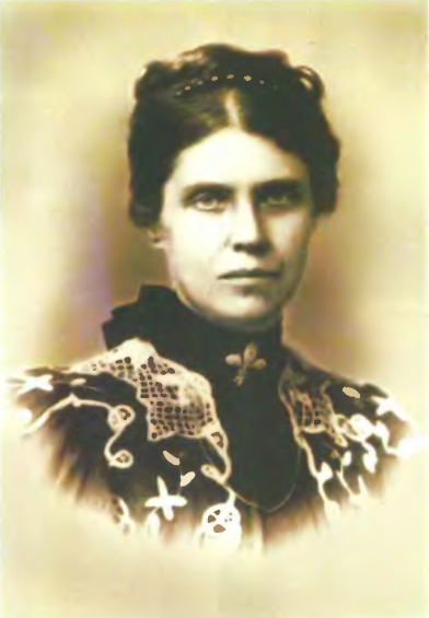 Sara Bull, Swami Vivekananda used to call this woman "mother".